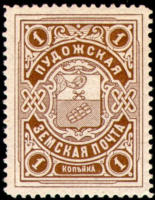 Pudozhski rural stamp, 1903, 1k.